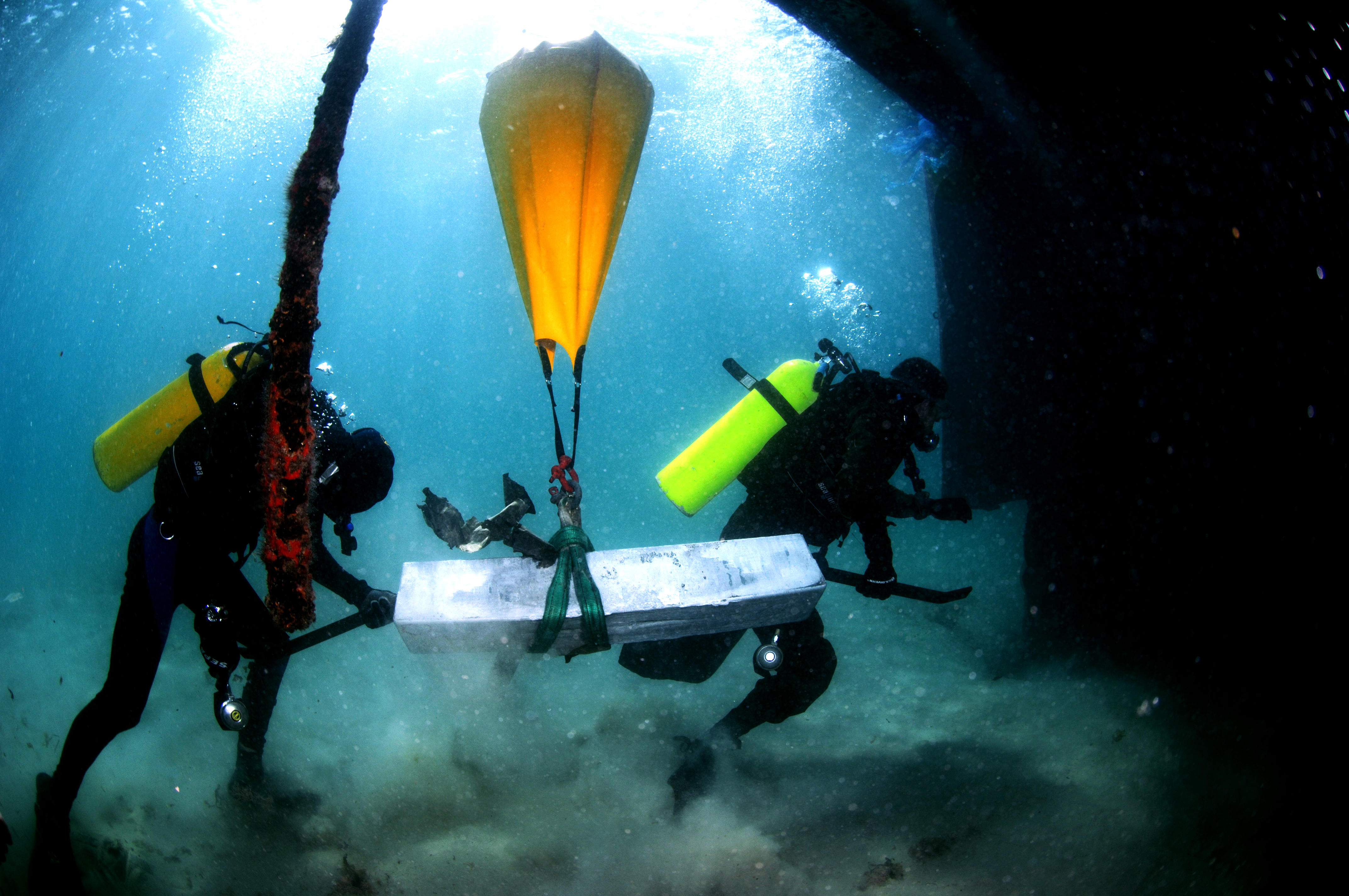 November 2, 2011 They navigate, weld, repair, salvage, take photos, and dispose of bombs, all underwater. Pictured above are the Underwater Missions Unit, the Israeli Navy's divers unit. They know how to perform intricate tasks, from underwater welding to salvaging entire ships from the depths of the sea. A professional diver can dive to a remarkable depth of 90 meters. The divers in the picture above are using a lifting bag. Featured as Photo of the Day on November 2, 2011. The Israel Defense Forces Facebook page The Israel Defense Forces blog Follow us on Twitter